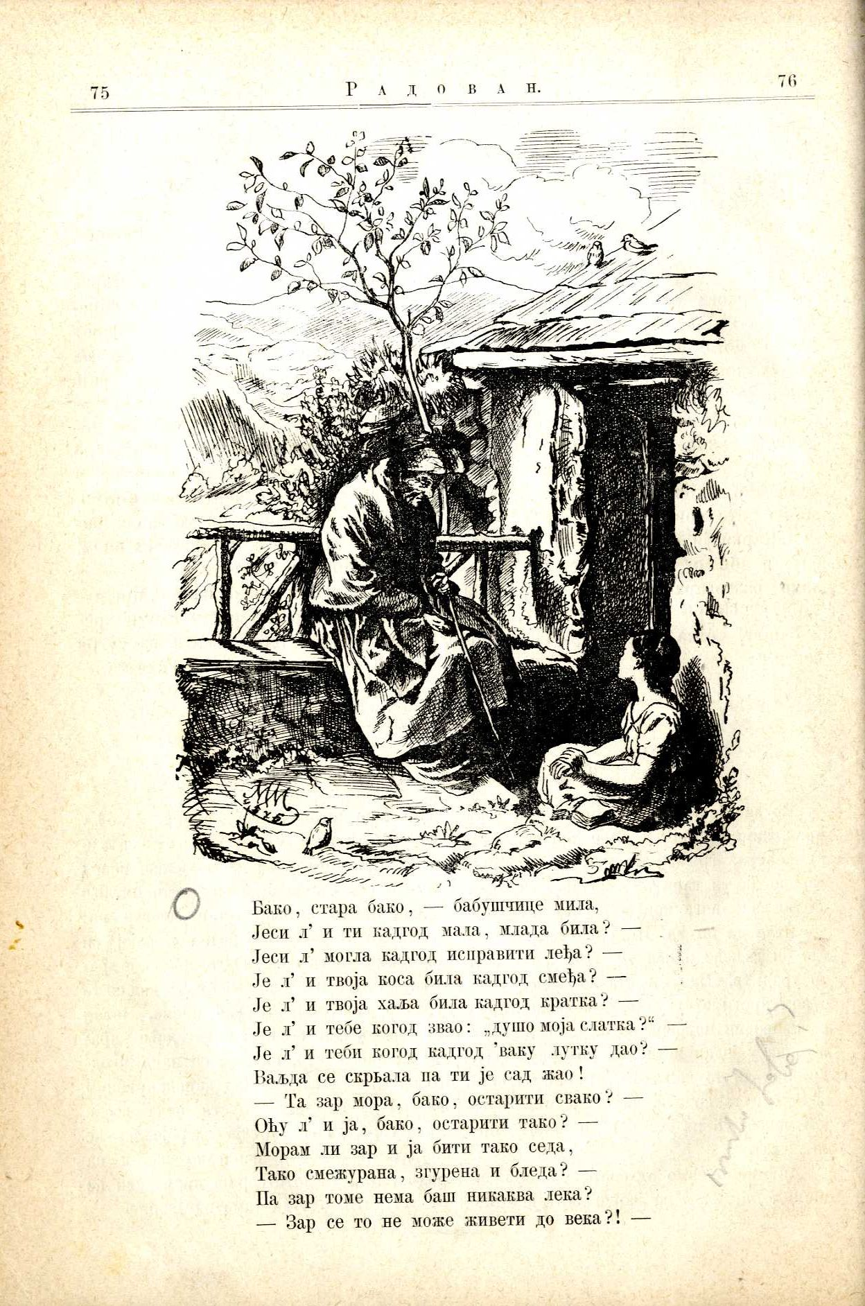 Radovan, magazine, picture from number 2, 1876, Novi Sad